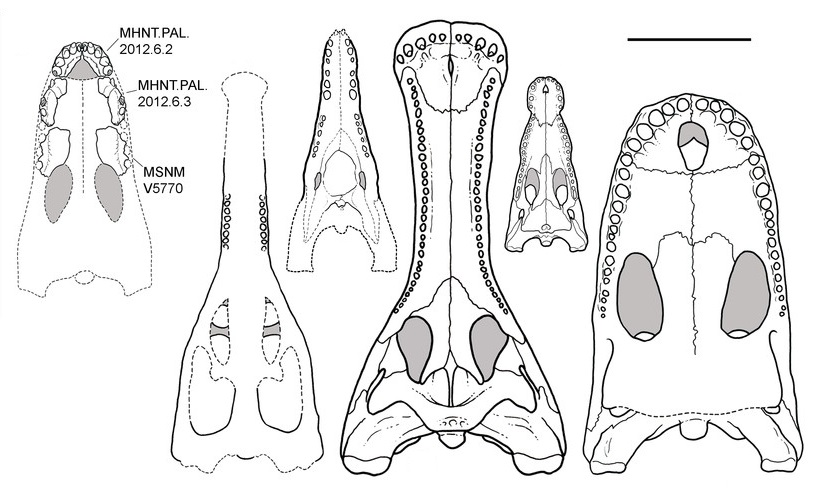 Composite reconstruction of the skull of Razanandrongobe sakalavae in palatal view (the specimens are indicated in the figure), and size comparisons with (left to right) the giant thalattosuchian Machimosaurus rex Fanti et al., 2016, the giant sebecid Barinasuchus arveloi Paolillo & Linares, 2007, the largest extant crocodilian Crocodylus porosus Schneider, 1801, and two of the biggest neosuchians, Sarcosuchus imperator De Broin & Taquet, 1966, and Purussaurus brasiliensis Barbosa-Rodrigues, 1892. Grey areas indicate skull roof areas visible through the palatal fenestrae. Scale bar = 50 cm. Skulls redrawn respectively from: Martinelli et al. (2012), Carvalho, De Arruda Campos & Nobre (2005), Fanti et al. (2016), Paolillo & Linares (2007), Sereno et al. (2001), Grigg & Gans (1993), and Aureliano et al. (2015).